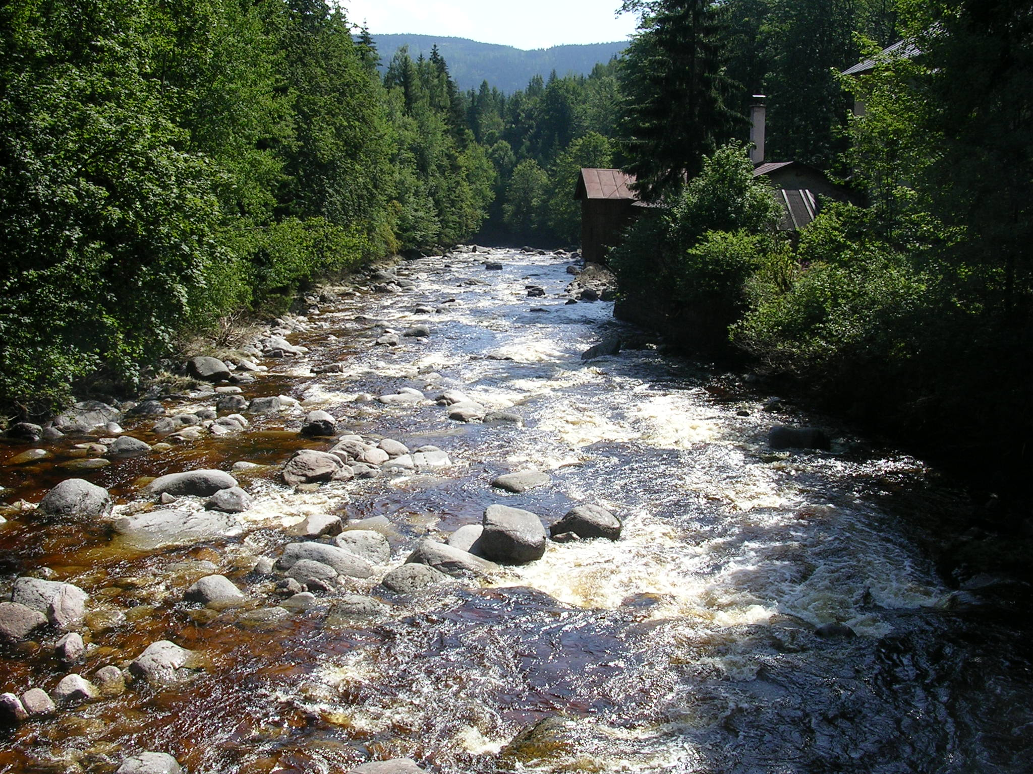 Kořenov-Dolní Kořenov, Jablonec nad Nisou District, Liberec Region. Jizera River.